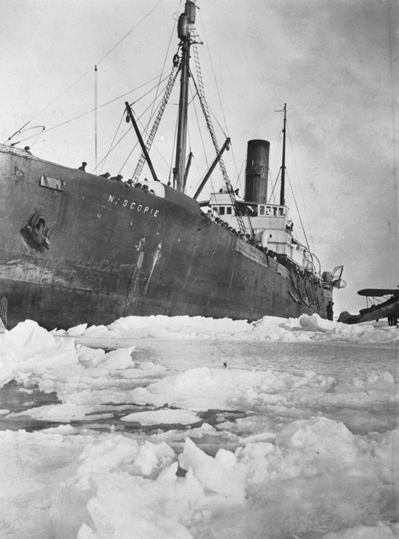 S. S. "Nascopie" at sealing grounds, 1927